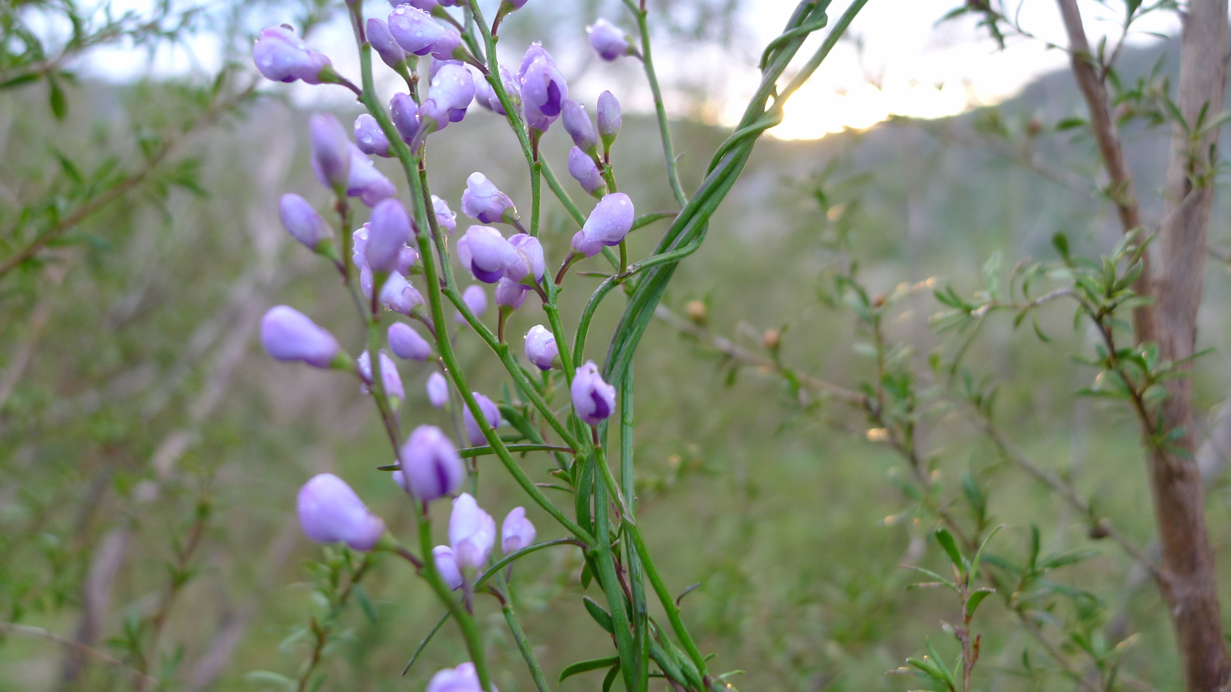 Love Creeper, Comesperma volubile. Dargo Victoria Australia, September 2011.